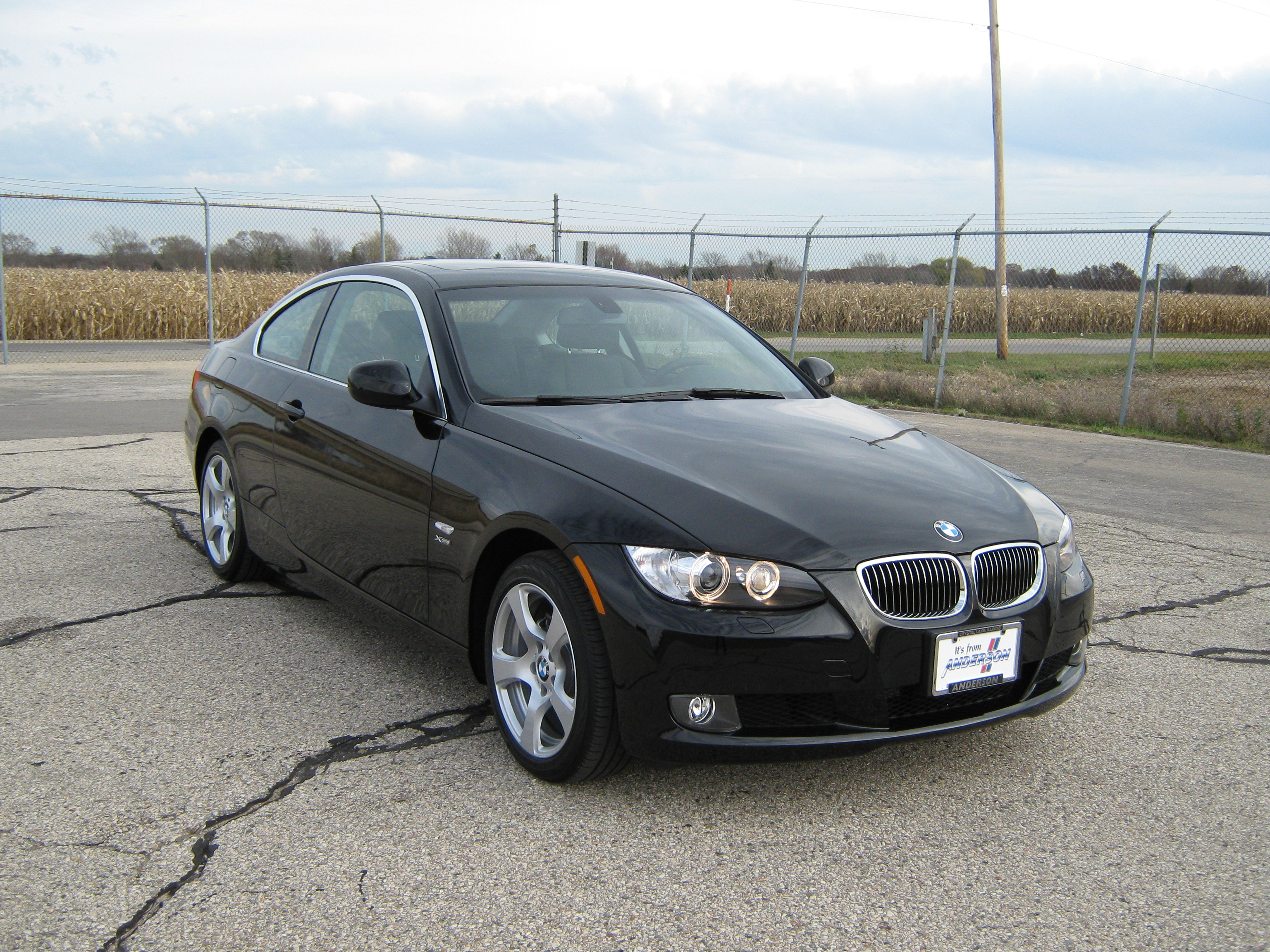 2010 BMW 328i coupe, photographed in USA.